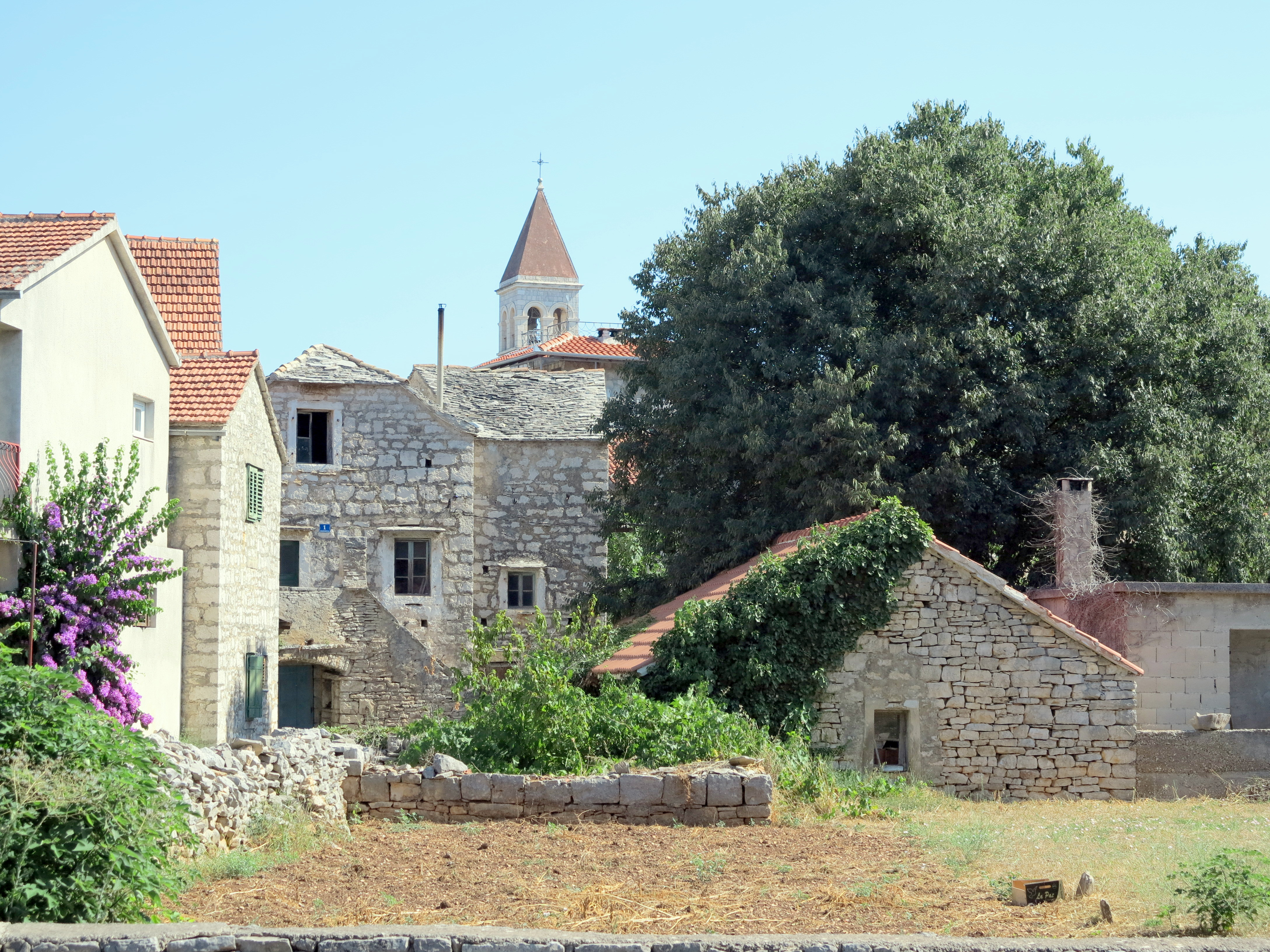 Old limestone houses, some still covered with stones in Grohote on the island Šolta / Croatia / Adriatic Sea. In the background of the church tower.